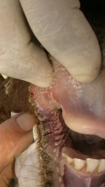 Ovine rinderpest : inflammation and erosion of the inner part of the lips Walon: Pesse des bedots et des gades : efouwaedje et erôdaedje del fene pea do dvins des lepes